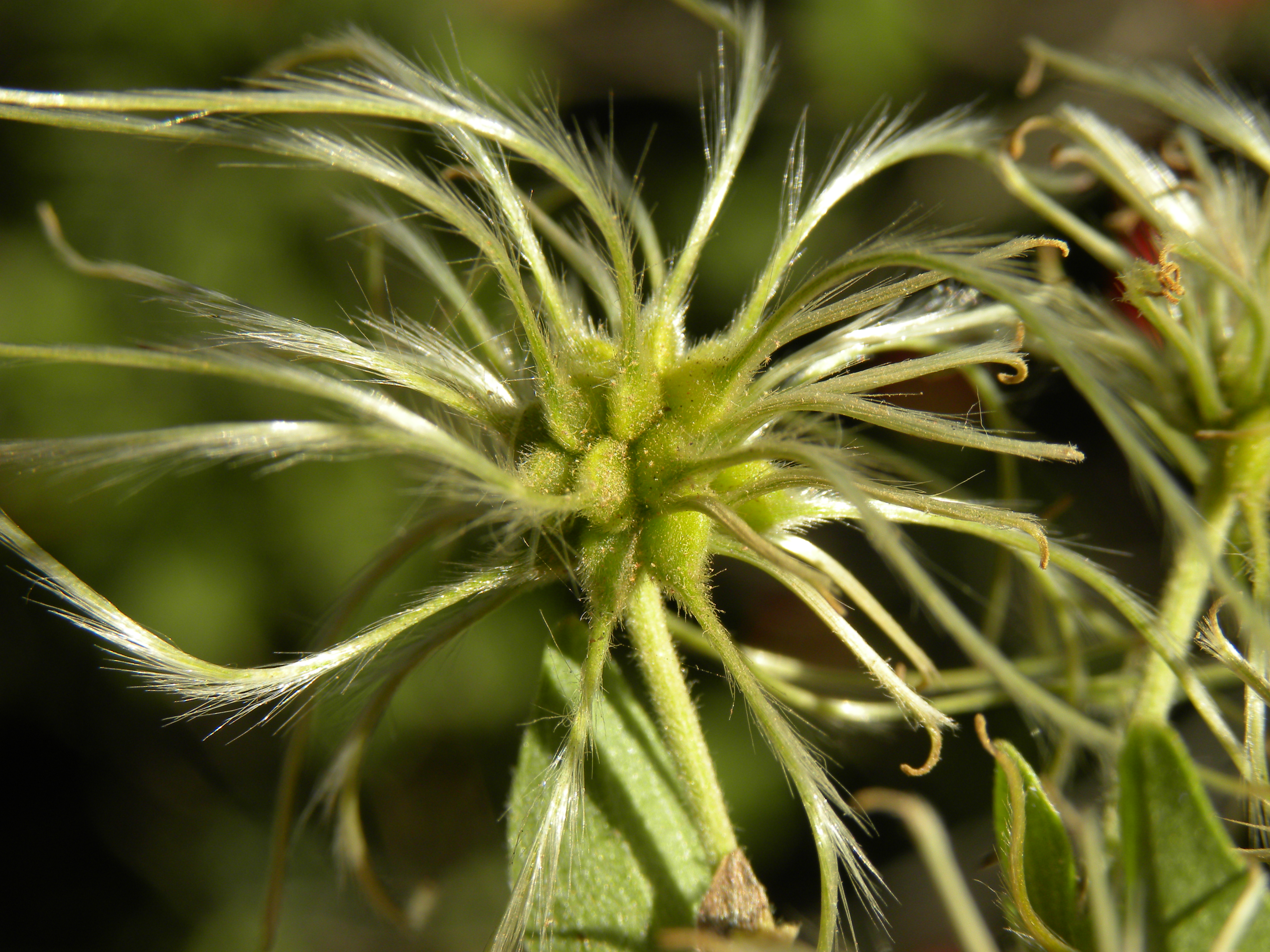 Achenes of Clematis dioica. In Santa Rosa National Park, Guanacaste Province, northwestern Costa Rica.